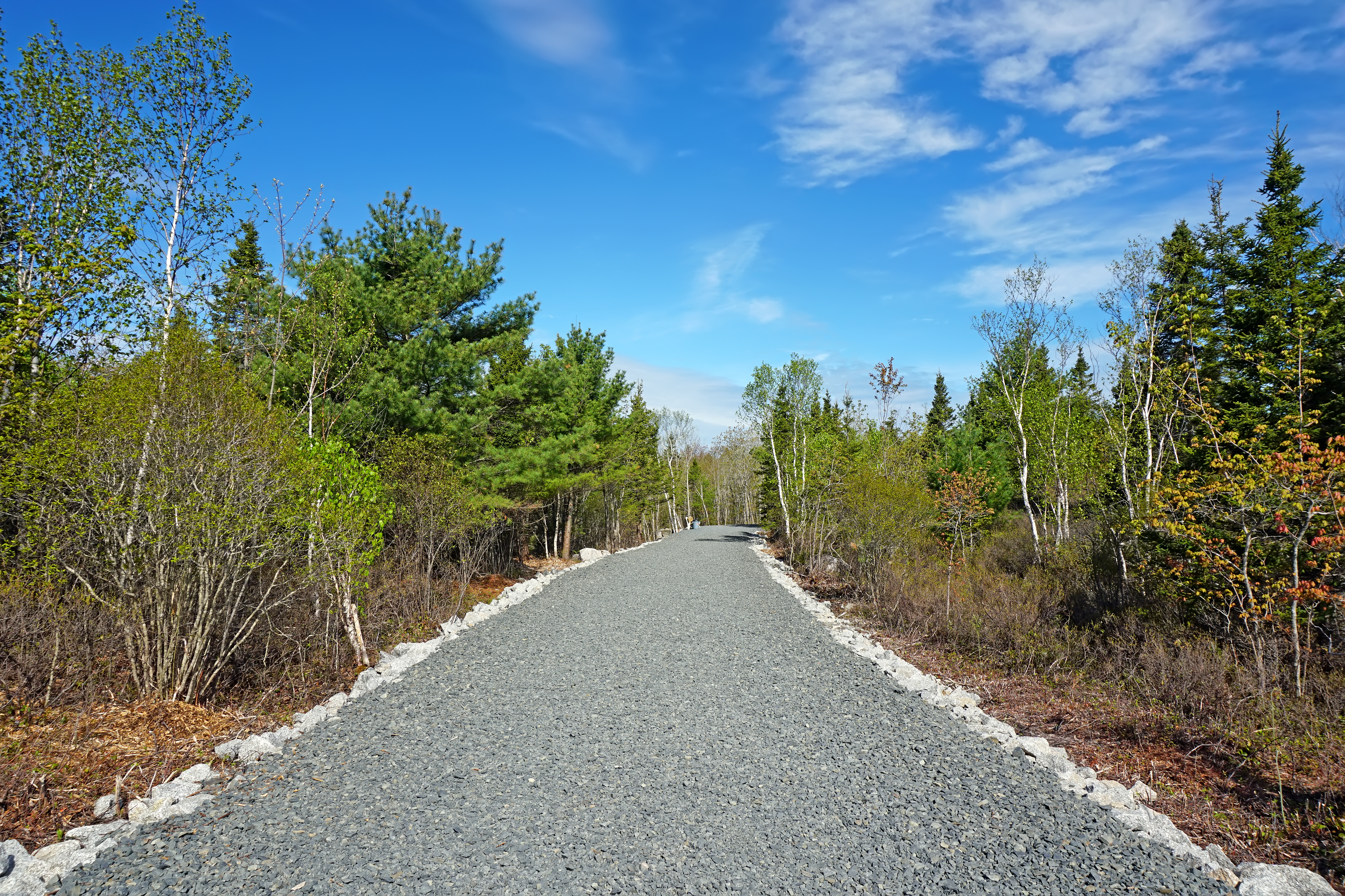 This was my first time on the trail and I was pleasantly surprised. There were 47 of us from the meetup group I belong to on this hike.